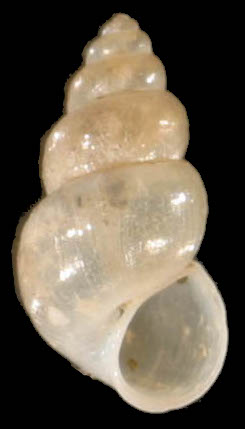 Photo of apertural view of shells of Ecrobia ventrosa, synonym: Hydrobia ventrosa. Locality: Netherlands: near Zierikzee. Date: July 1983.